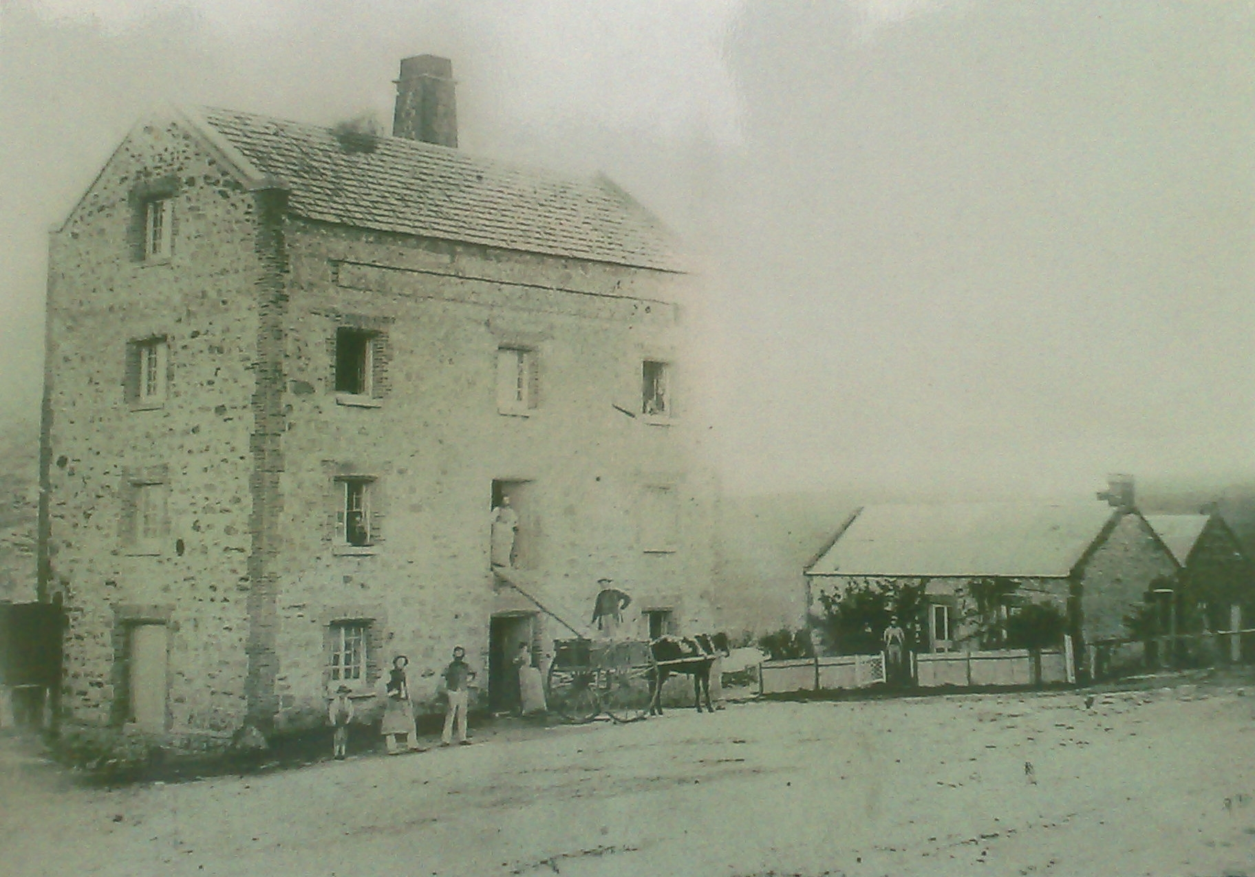 Reynella Grist Mill, 1860, courtesy of R.Woolcock